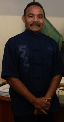 Cropped photograph of George Wells meeting with the Governor-General of Australia in July 2010